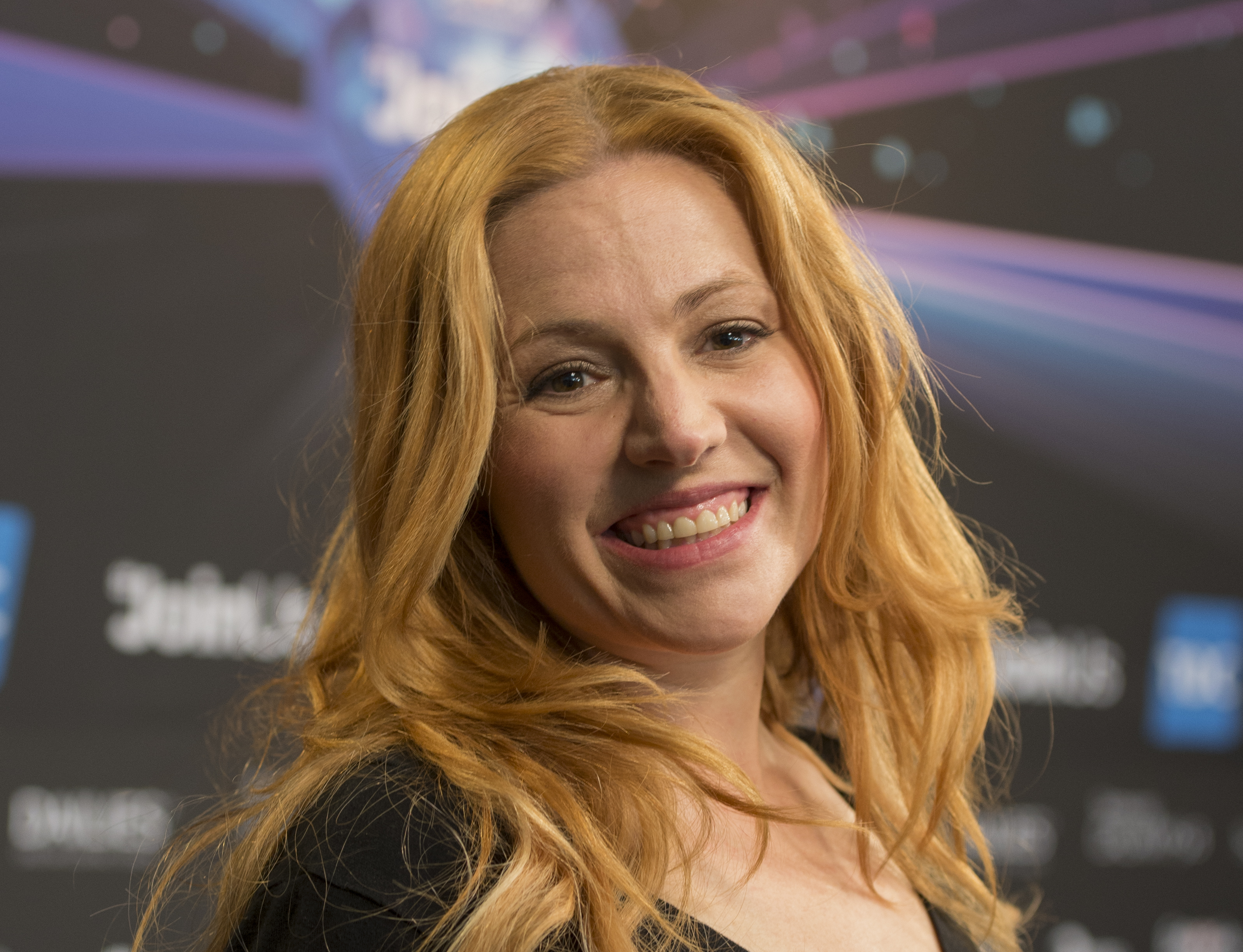 Valentina Monetta at a Meet & Greet during the Eurovision Song Contest 2014 Copenhagen. (Help translate this text)